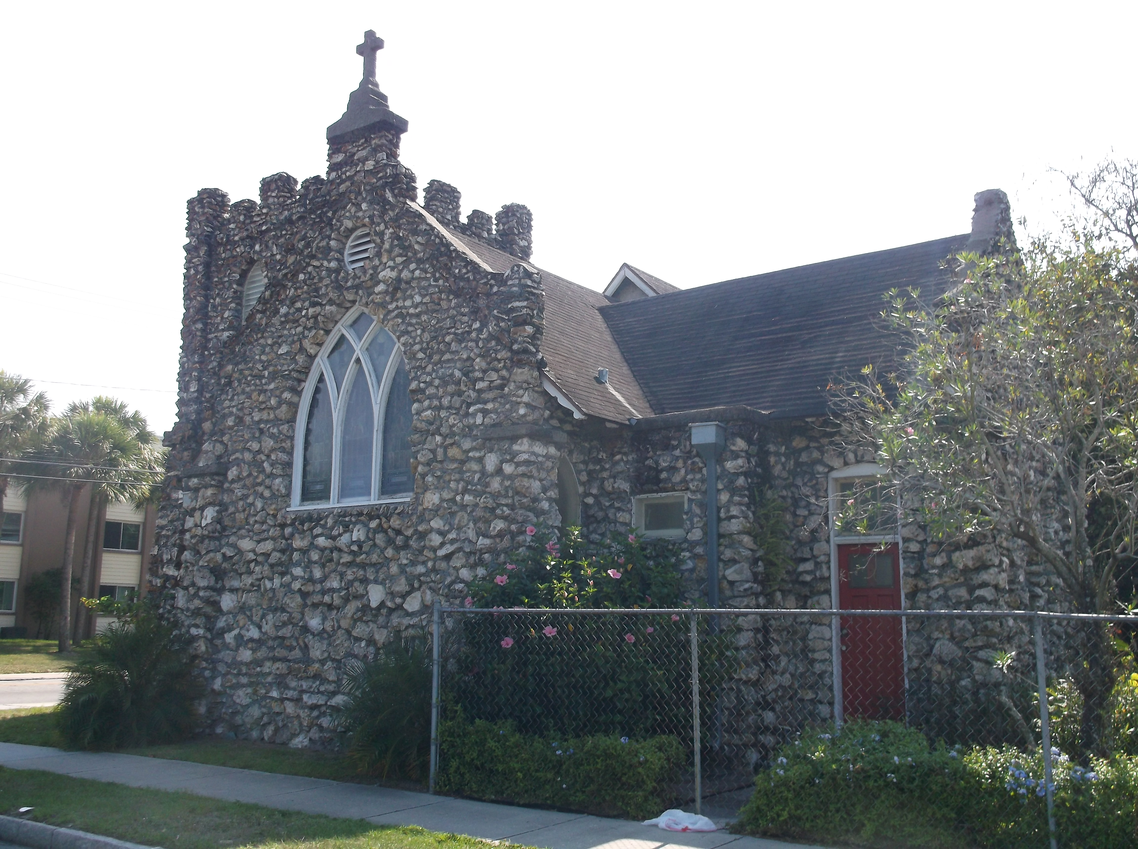 Stone church on Columbus Avenue in Tampa, Florida